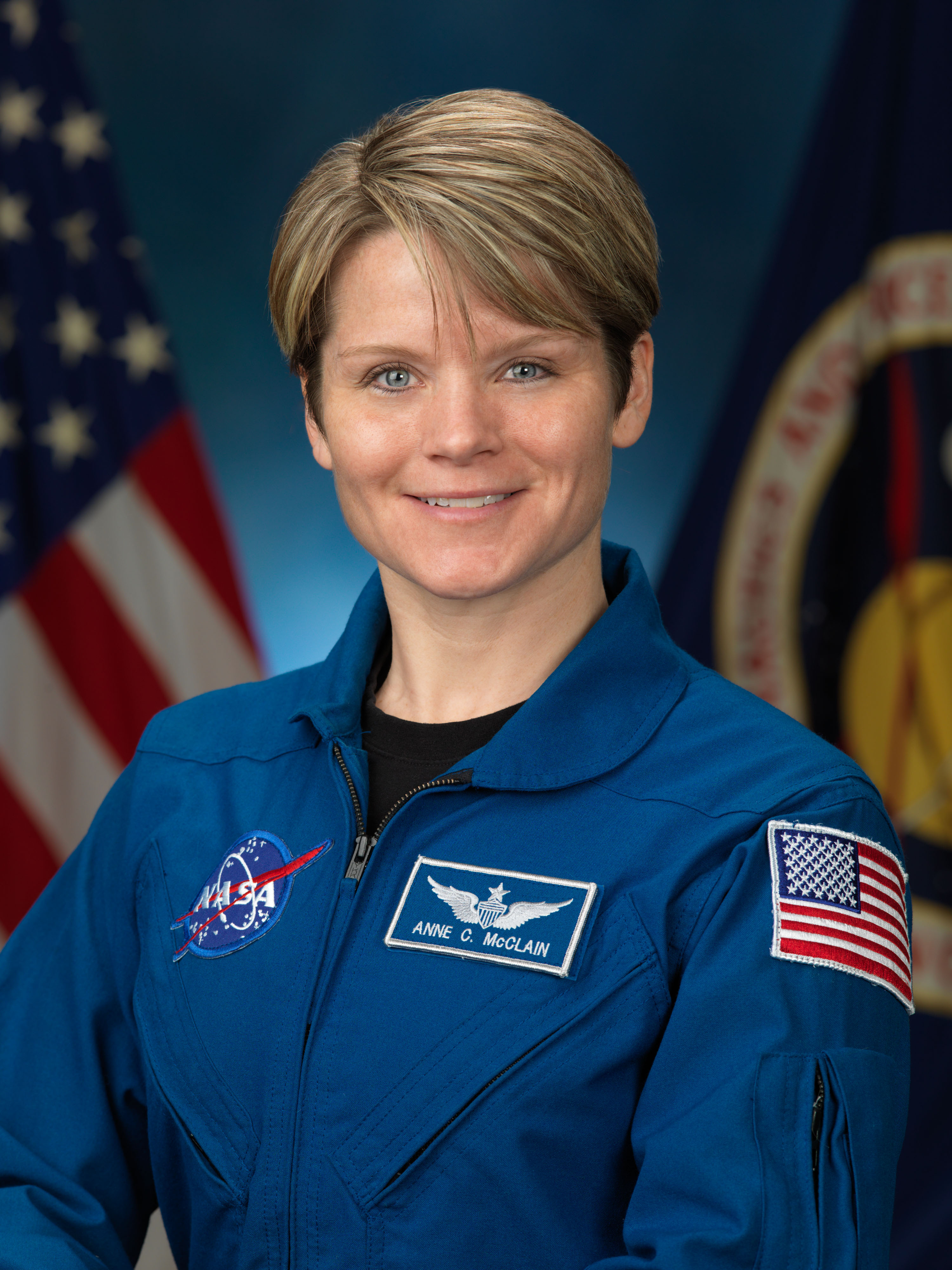 JSC2014-E-008049 (16 Jan. 2014) --- Anne C. McClain, NASA astronaut candidate class of 2013.